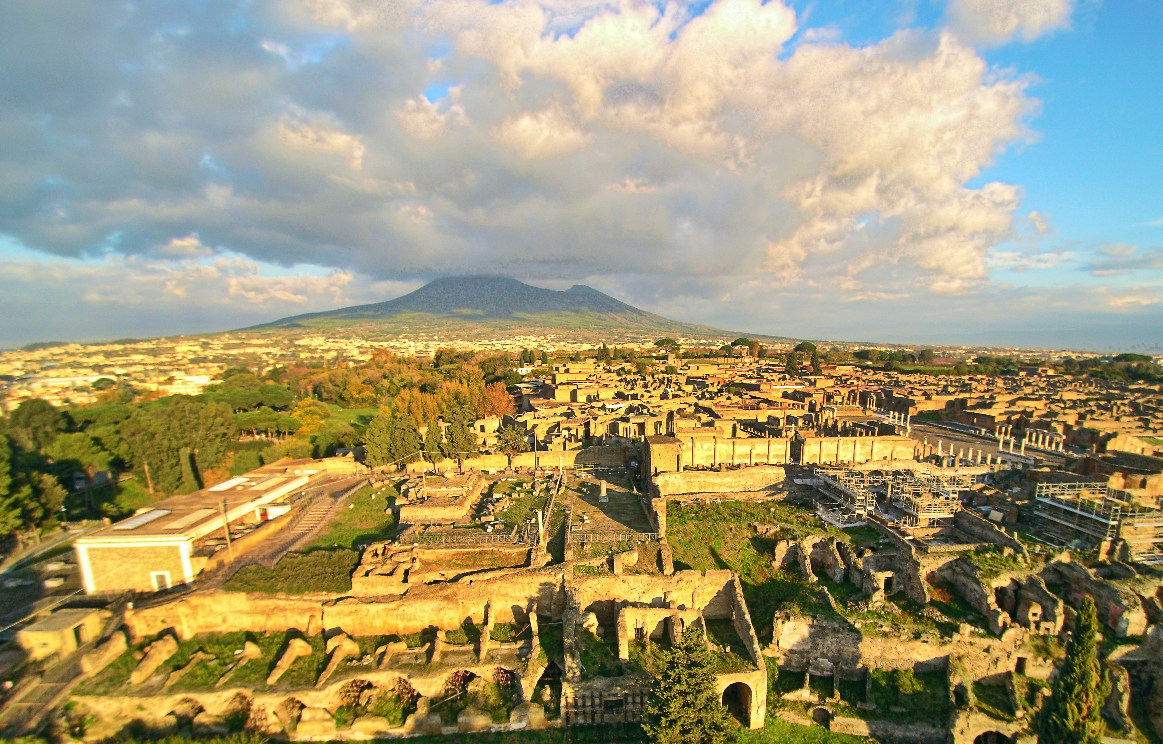 Ruins of Pompeii seen from the above with a drone, with the Vesuvius in the background